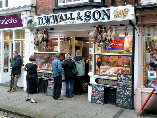 DW Wall - traditional butcher's shop, Ludlow A business on the High Street of this fine town.